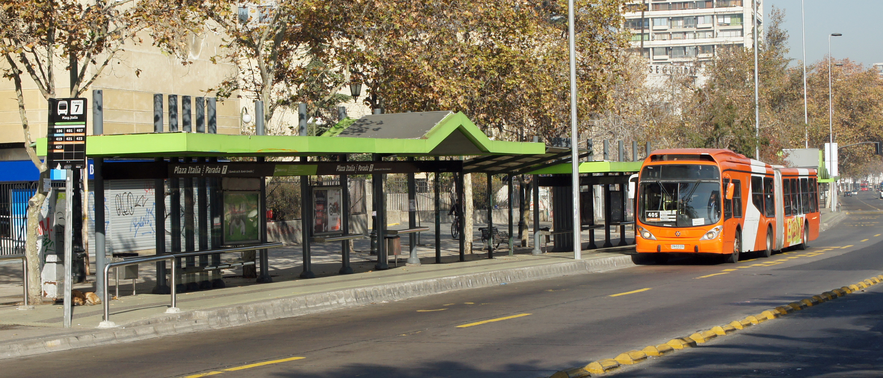 Transantiago articulated bus on Avenida Libertador General Bernardo O'Higgins, Bus stop 7, Plaza Italia. Santiago, Chile